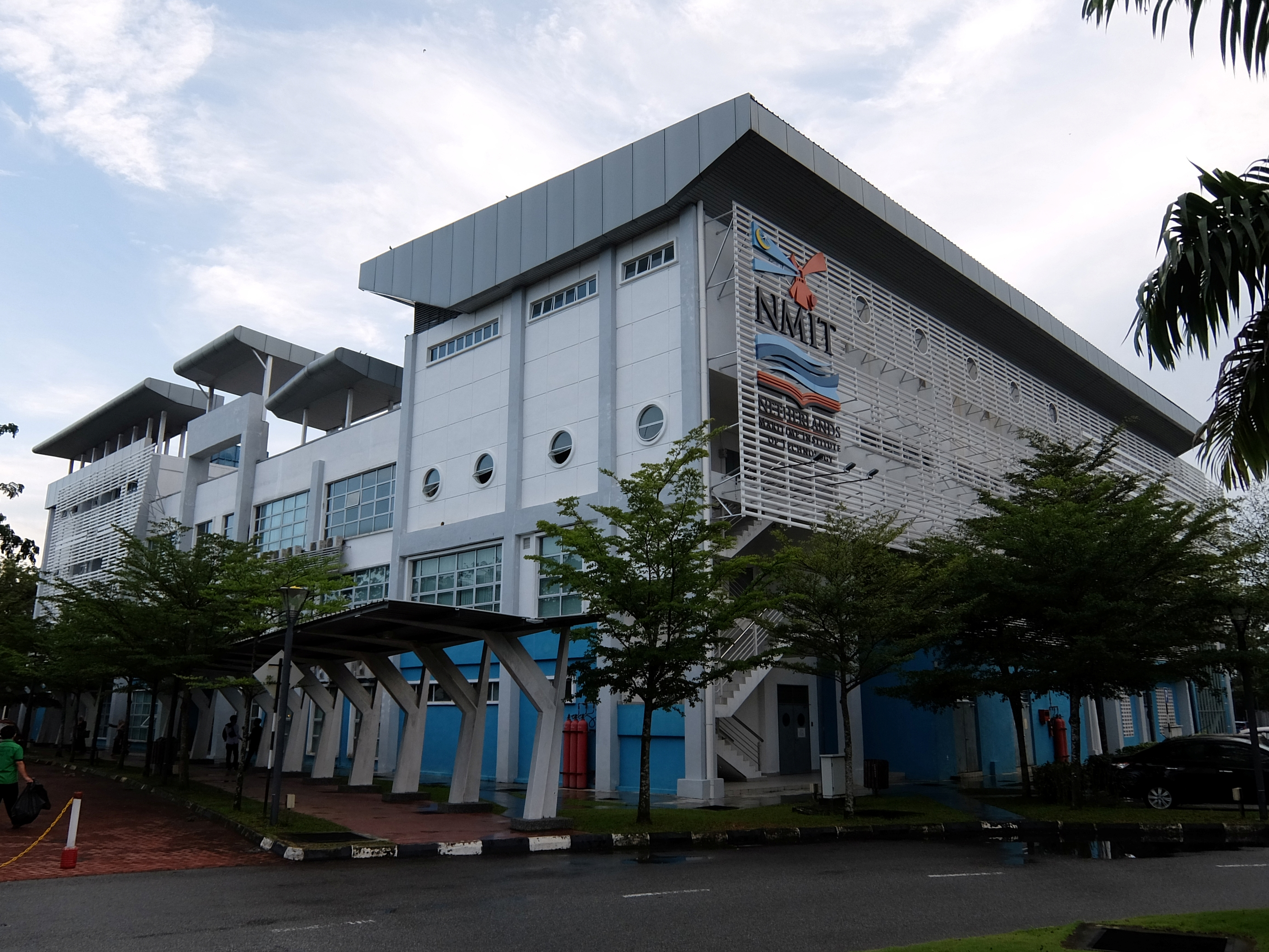 Netherlands Maritime Institute of Technology, EduCity, Iskandar Puteri, Johor, Malaysia